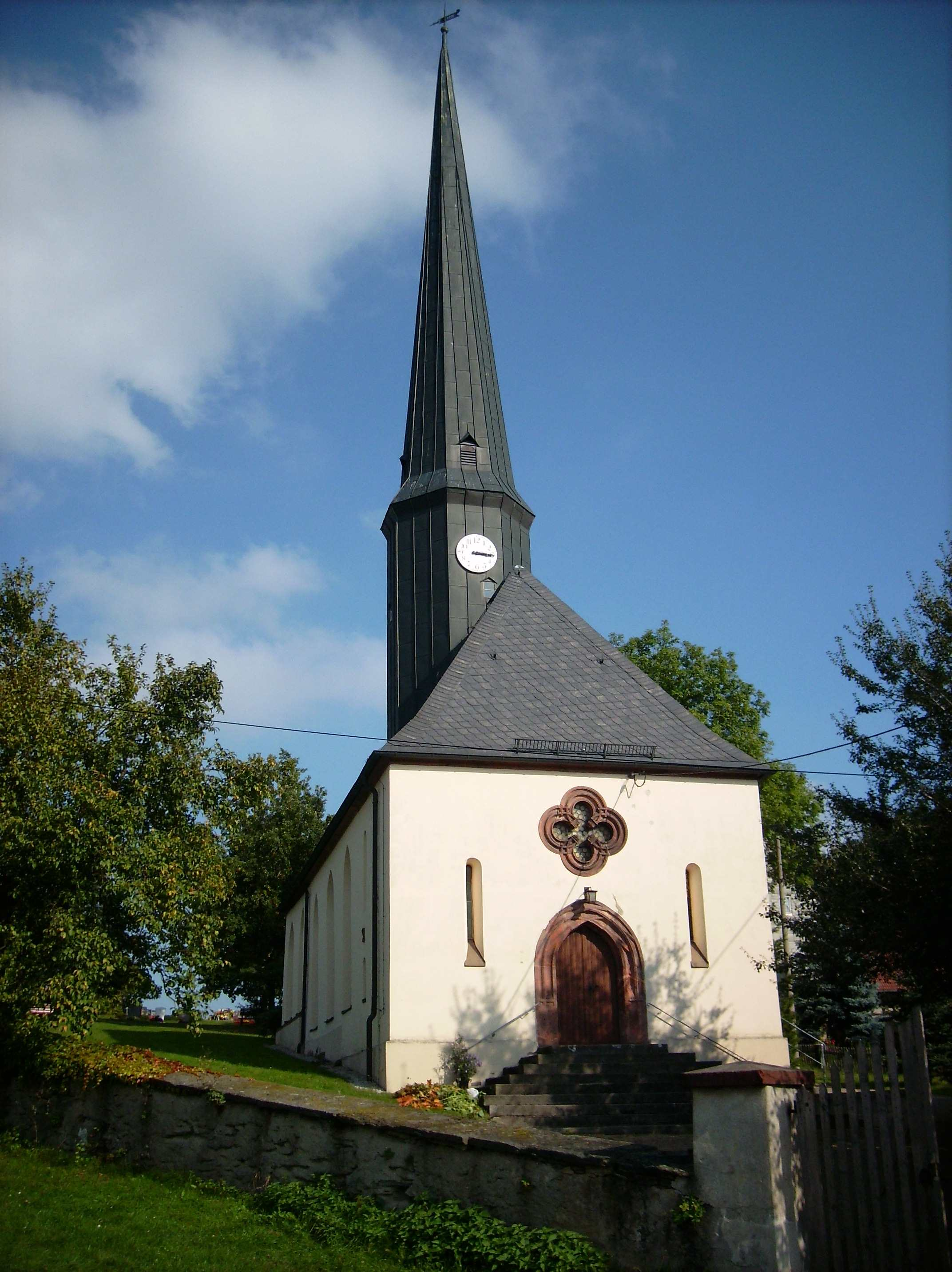 Church of the village of Schwaben (Waldenburg/Sachsen, Zwickau district, Saxony)